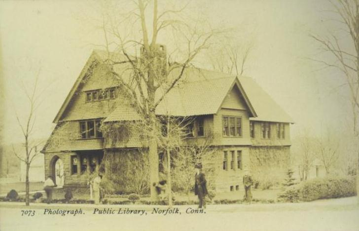 Postcard of Norfolk Library, Norfolk, Connecticut. The library is part of the Norfolk Historic District.